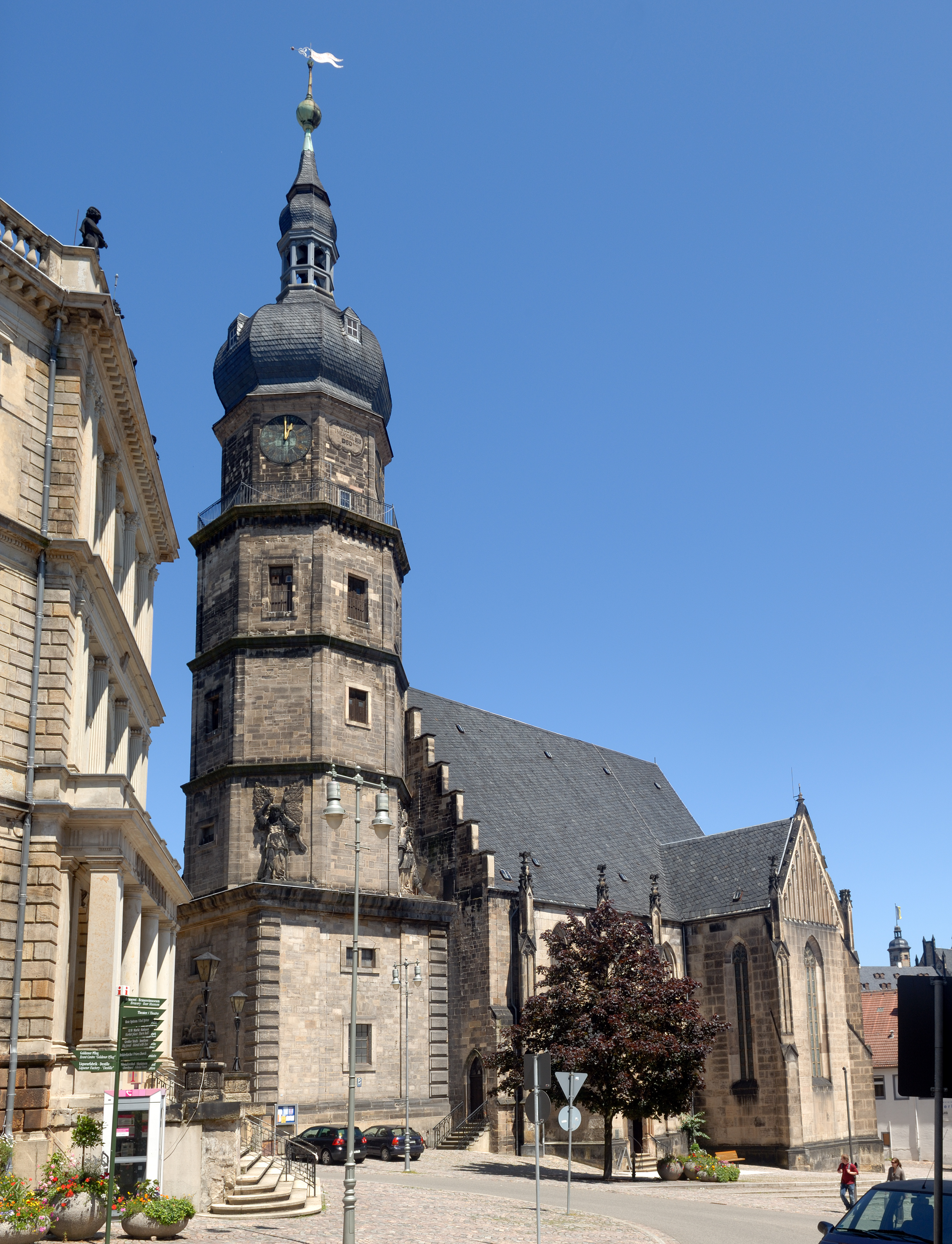 This image shows the church St. Bartholomäi in Altenburg, Thuringia, Germany. It is a two segment panoramic image.